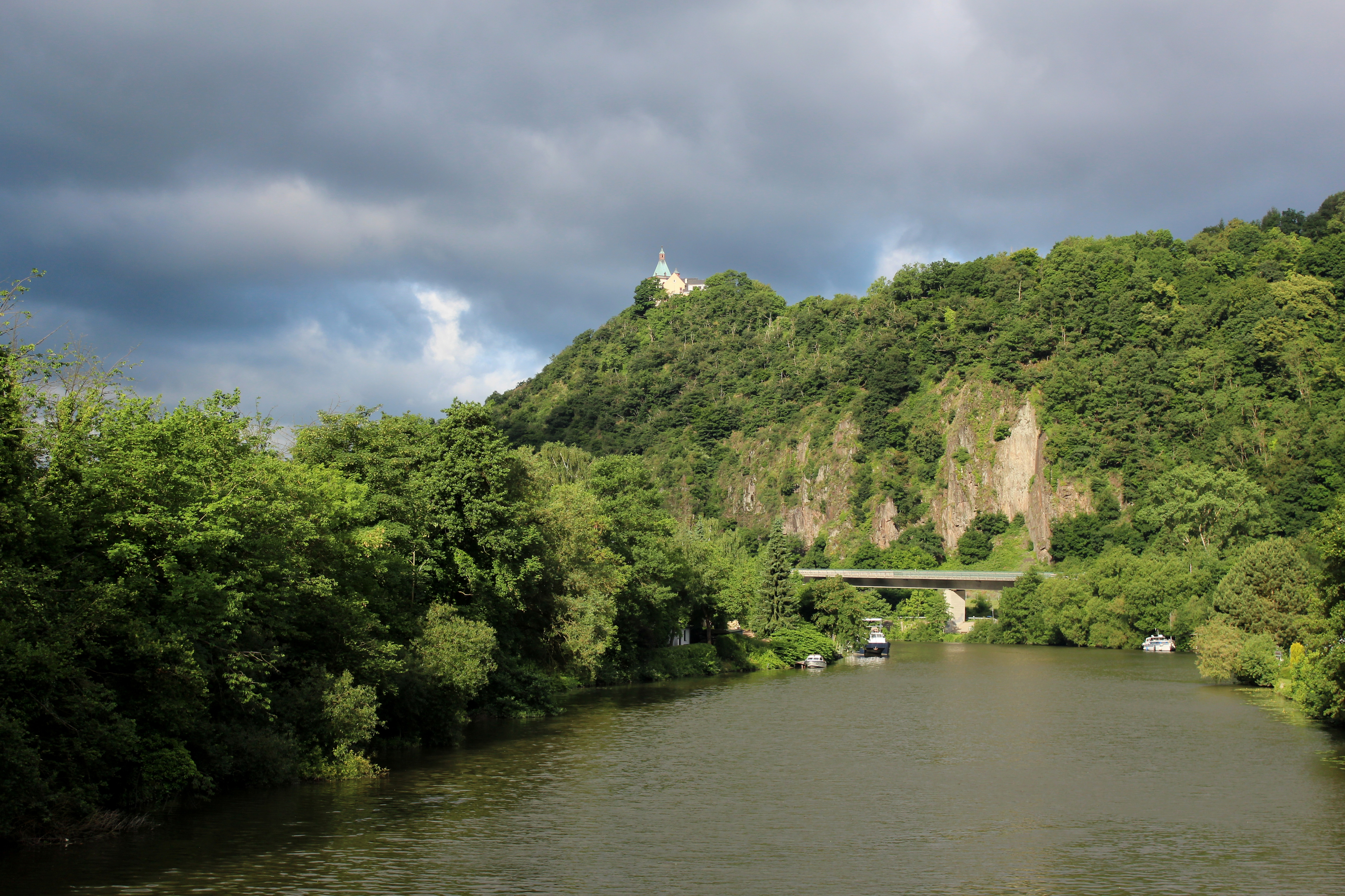 View over the Lahn near Lahnstein onto the Allerheiligenberg